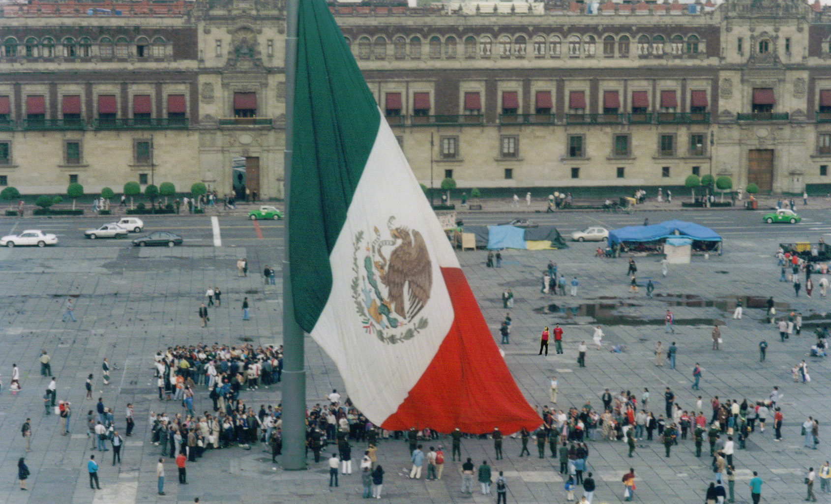 I took this picture when I visited Mexico City.